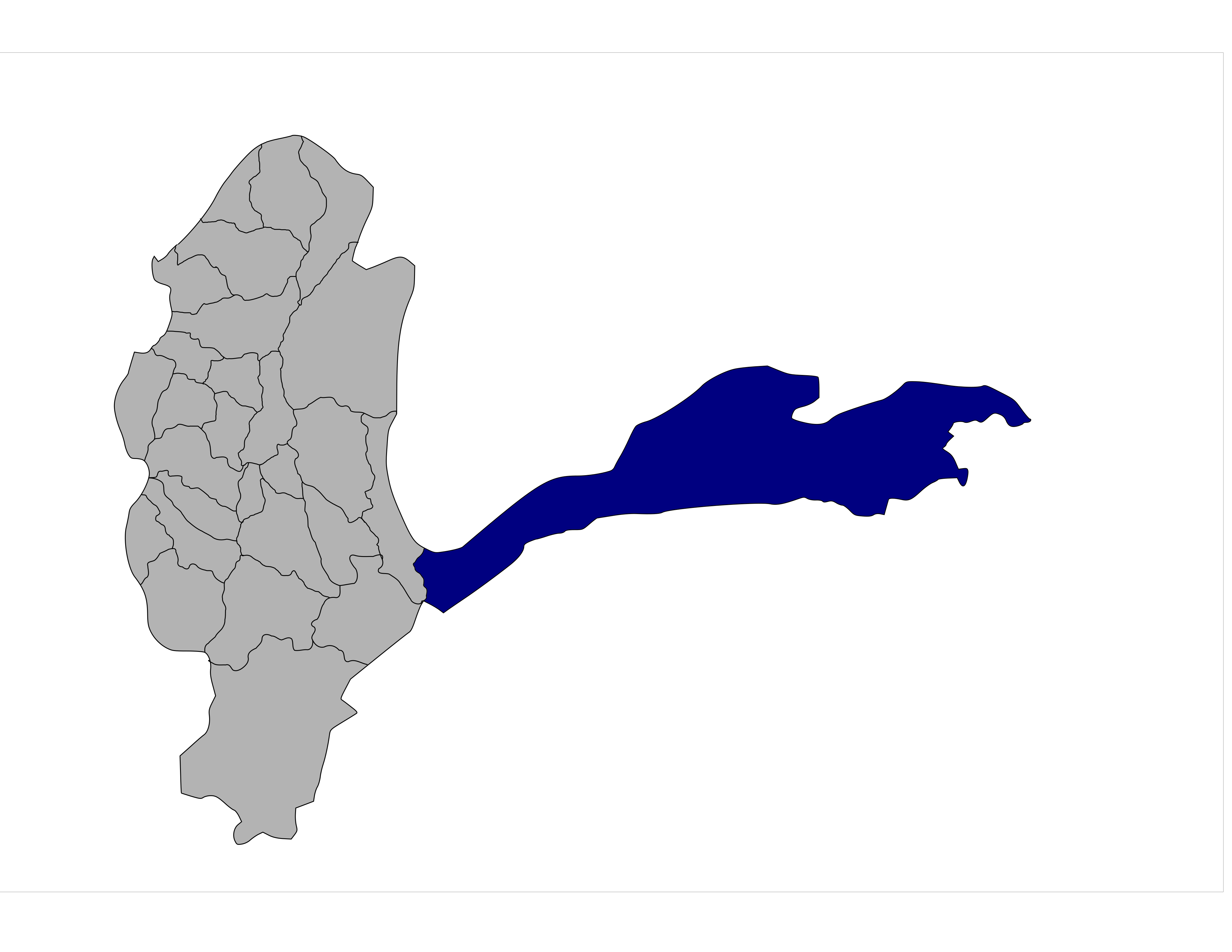 Shows the boundaries of Wakhan District, Badakhshan Province, Afghanistan.